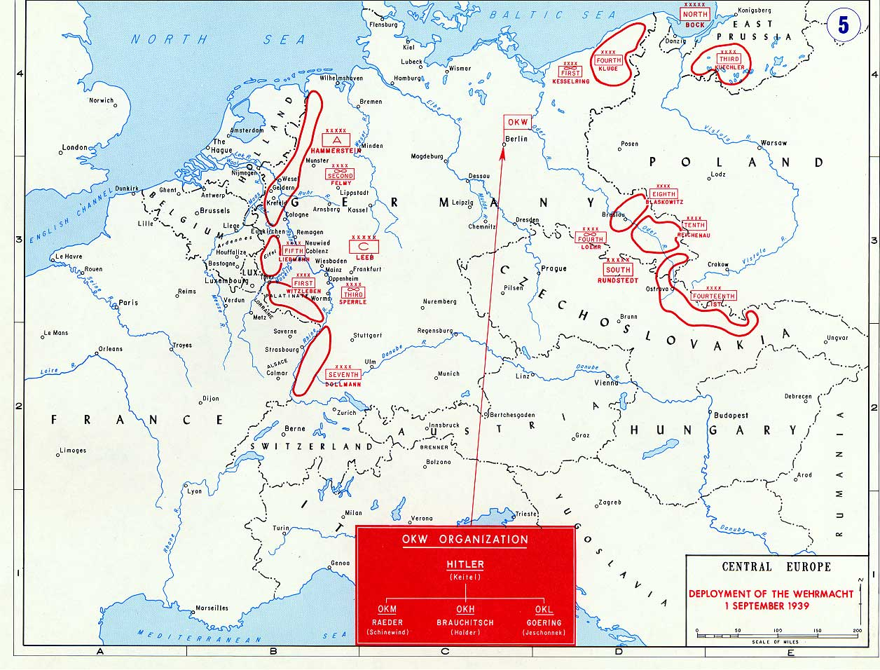 Deployment of the Wehrmacht the 1st September 1939.